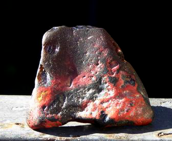 The PaleoIndians that lived near the San Quentin Peninsula and Ring Mountain in Marin County, California worshipped the immense power contained in a geothermal volcano located there. Phreatic (or steam-blast) eruptions are caused by explosive expanding steam resulting from cold ground or surface water coming into contact with hot rock or magma. Volcanic glass, beads of copper and other pyroclastic materials were formed in the caldera and scattered by the blasts. Each explosion left geothermal vents at the bottom of the caldera that belched superheated steam from deep inside of the Earth. The PaleoIndians used the vents to re-melt the glass they collected. Their fused glass pieces take many forms and colors. They were so skilled at glasswork that they had the abiliity to create pictures inside of the glass with ashes. Thermoluminescence Dating (TL) was performed on one glass piece. The results indicate and age of 5,700 years +/- 820